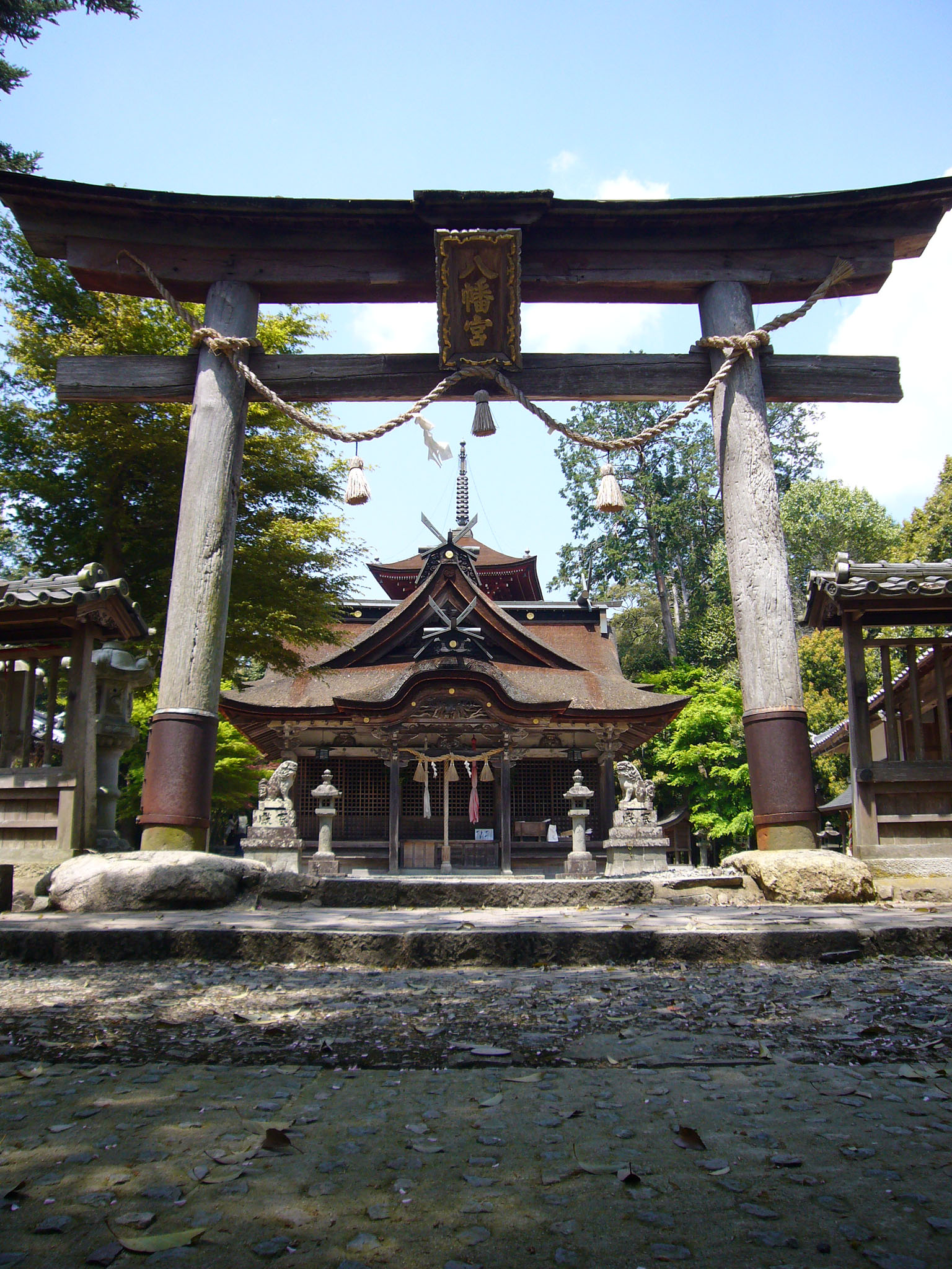 Kaibara Hachiman Jinja in Tamba, Japan